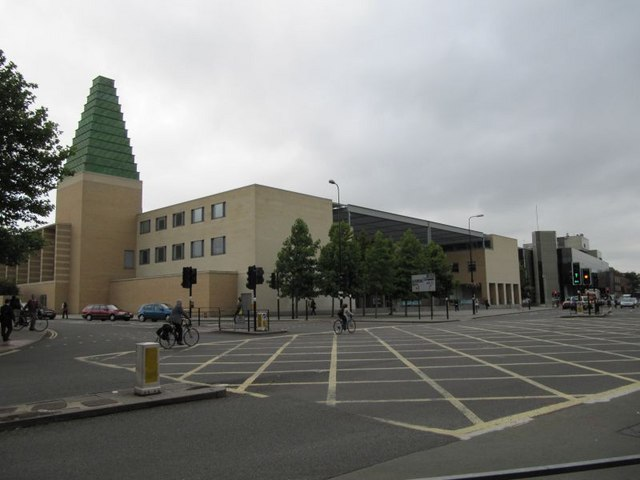 Saïd Business School I remember seeing the old LMS station here when I first came to work in Oxford where a tyre fitting company worked out of it. I don't think this building has improved the place. Oxford_Rewley_Road_railway_station